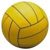 water polo ball